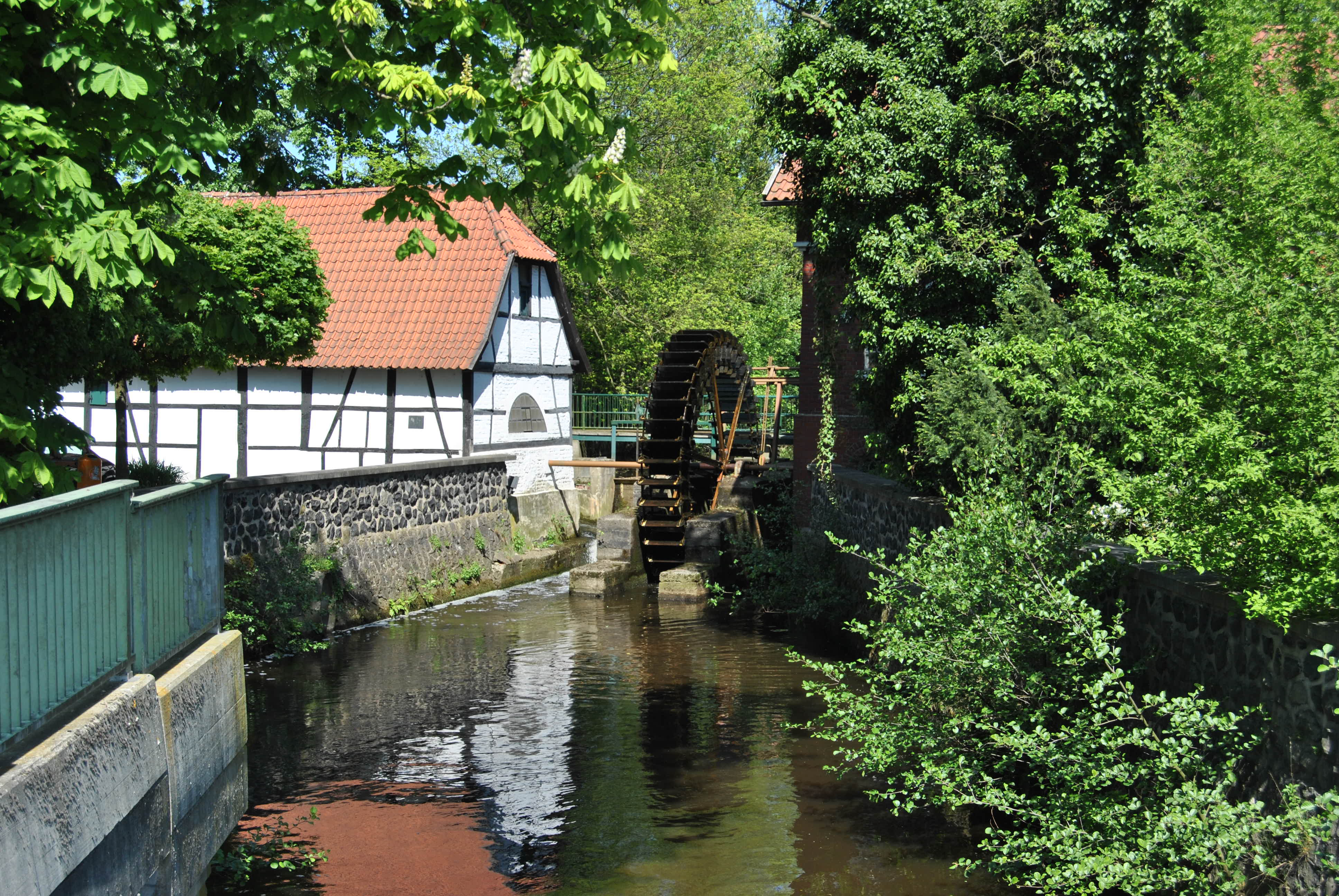 Watermill Hiesfeld in Dinslaken This photograph was taken with a Nikon D3000 This image shows a heritage building in Germany, located in the North Rhine-Westphalian city Dinslaken.